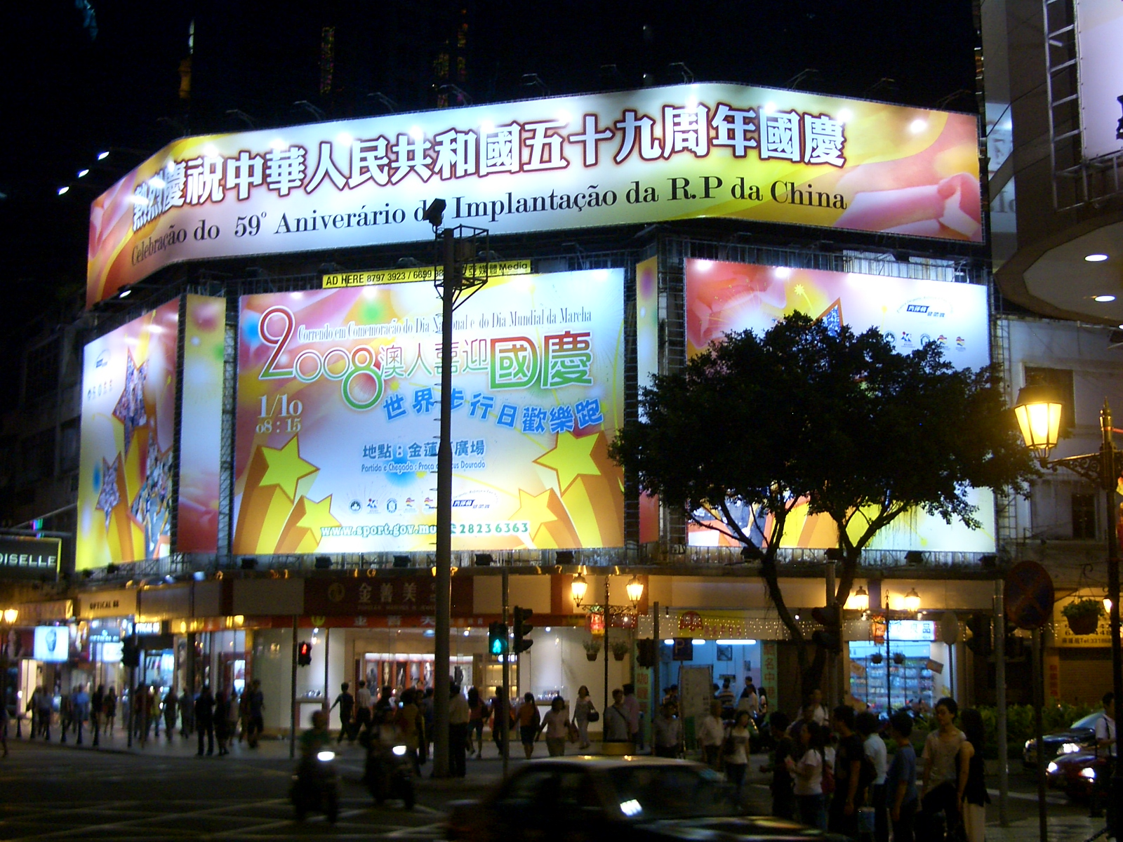 A building in Macau's main street decorated for the occasion of China's 59th national day (Celebração do 59-o Aniversário do Implantação da Republica Popular da China) and the "international Day of Walking", both of which fell on Oct 1, 2008